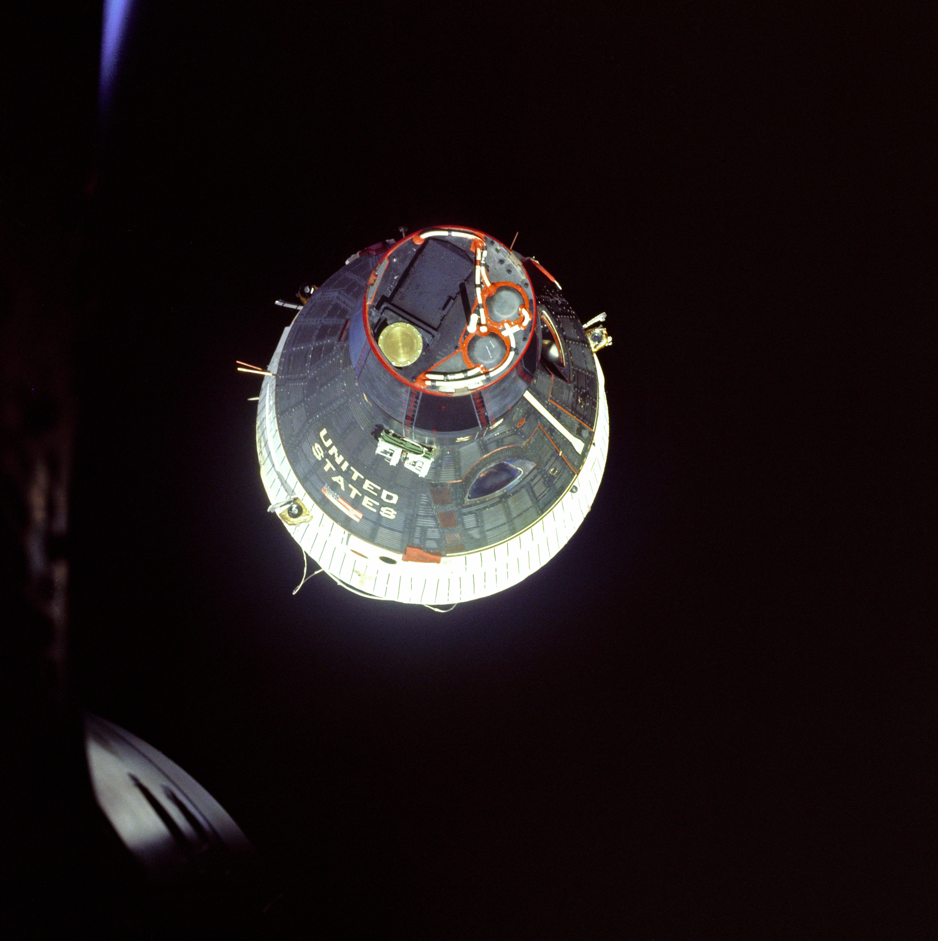 This photograph taken on December 15, 1965 shows the Gemini 7 spacecraft as it was observed from the hatch window of the Gemini 6 spacecraft during rendezvous manuevers and station keeping at a distance of approximately 9 feet apart.